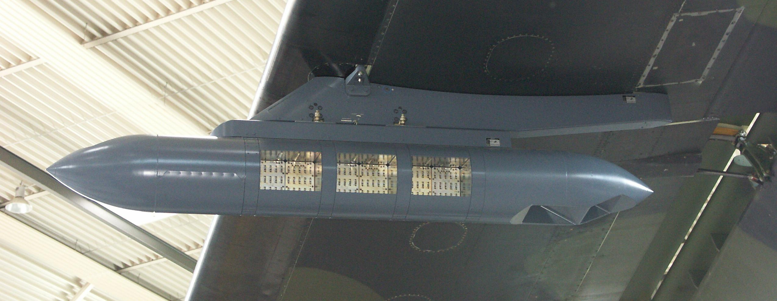 Transall C-160 Chaffs & flares pod